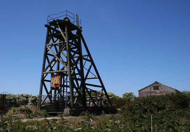 Winding Gear at Skinner's Bottom. This looks to be winding gear for a small mineshaft. It also looks to be derelict. My thanks go to Malcolm Kewn for providing the following explanation: "This is the headgear of Wheal Concord, which was reopened in 1980, and visited by the Duke of Cornwall in 1981, who went underground during his visit. Tin output failed to reach expectations, however, and the tin market crash of 1985 proved to be the killer blow for this venture. The mine closed in 1986, hence the dereliction evident in the photo."